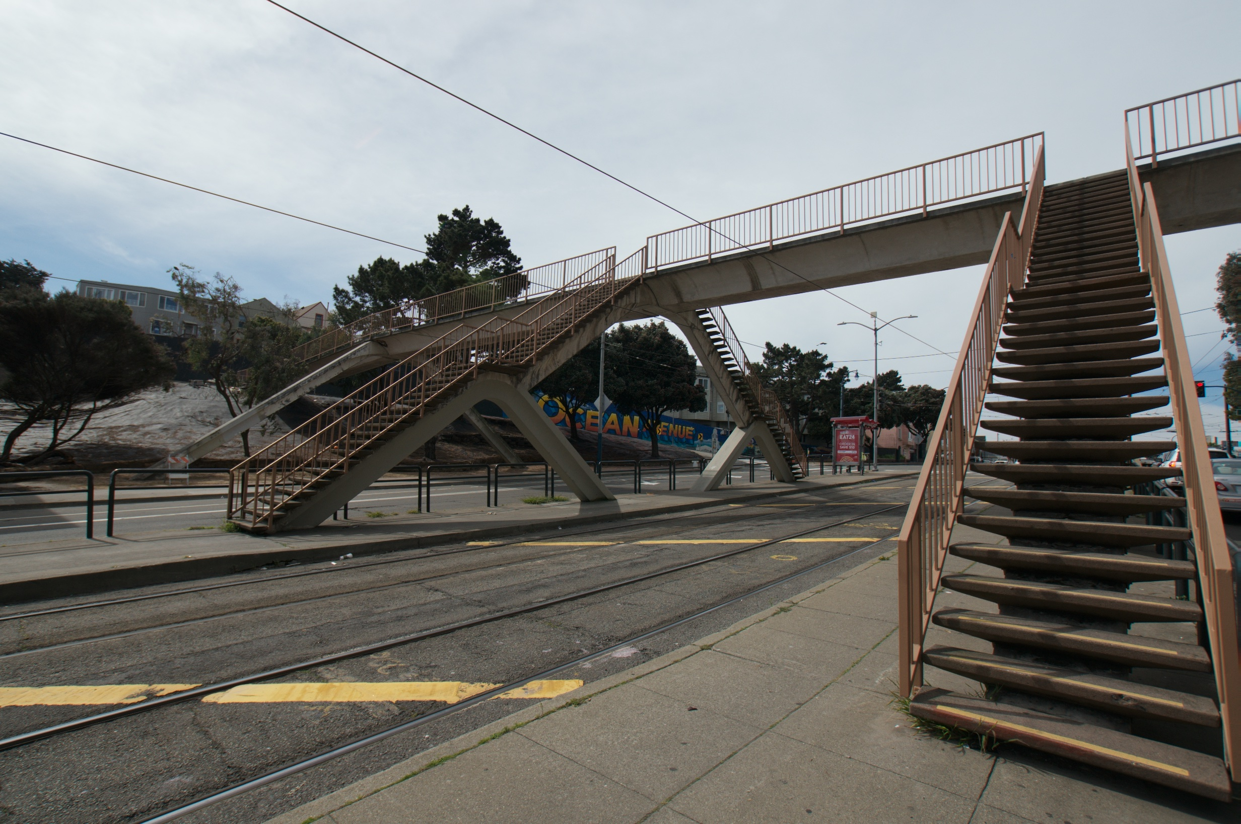 CCSF pedestrian bridge in March 2017